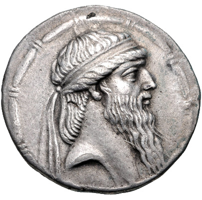 Coin of Artabanus I of Parthia (r. 126–122 BC) (cropped), Seleucia mint.